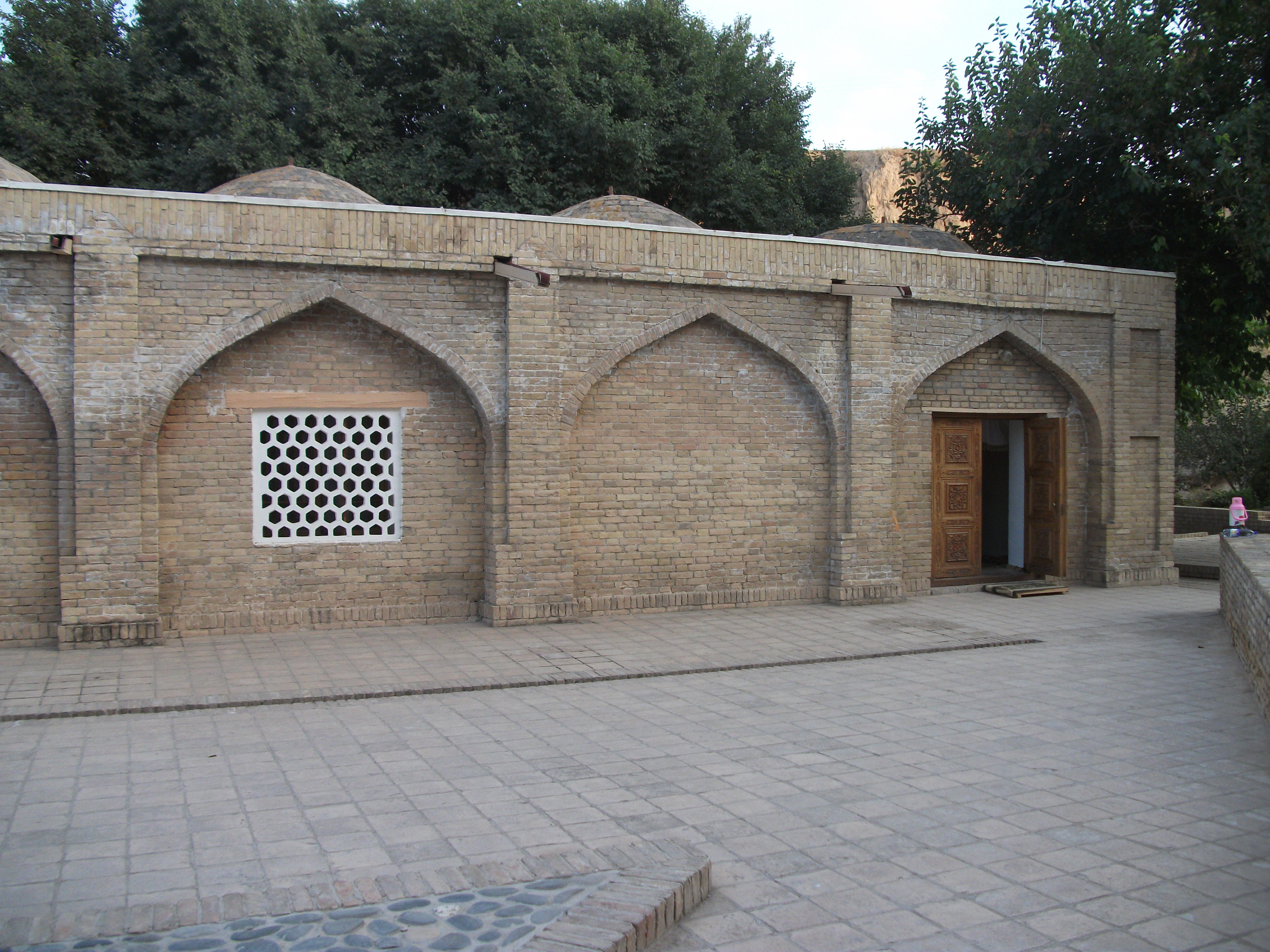 Mazar Khodja Daniyar